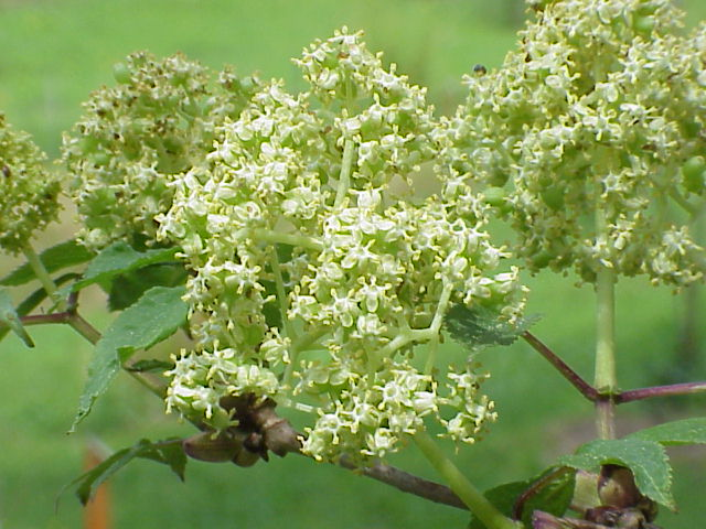 Species: Sambucus racemosa Family: ' Image No. 3